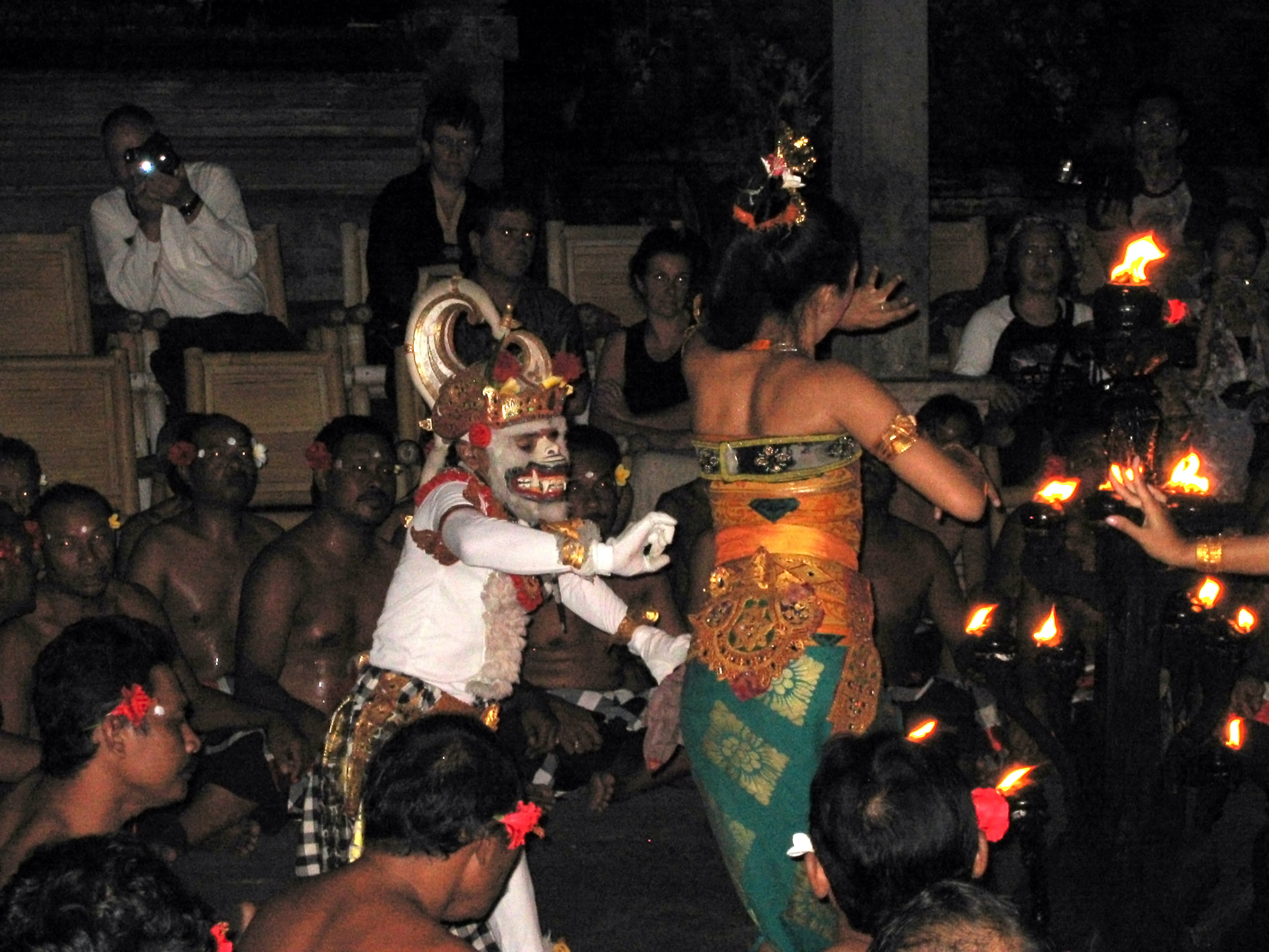 Balinese dance performance of Ramayana. Hanoman, king of monkeys comes on a mission from Rama bringing her into a ring to make sure she is alive and tells her she will be rescued..Sita sends a golden flower with Hanoman.IMG_4404